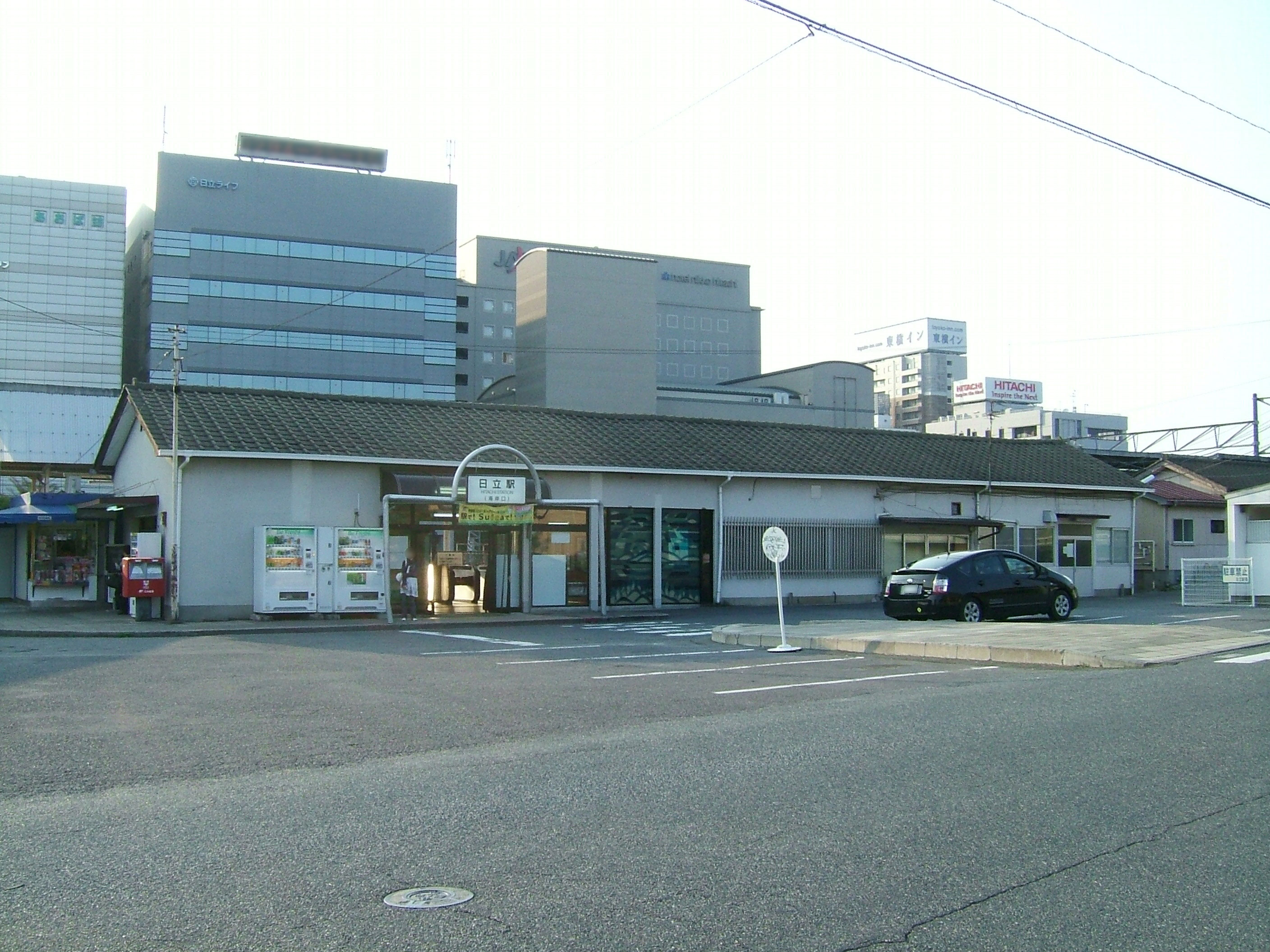 Hitachi Station Kaiganguchi entrance (East Japan Railway Jōban Line)